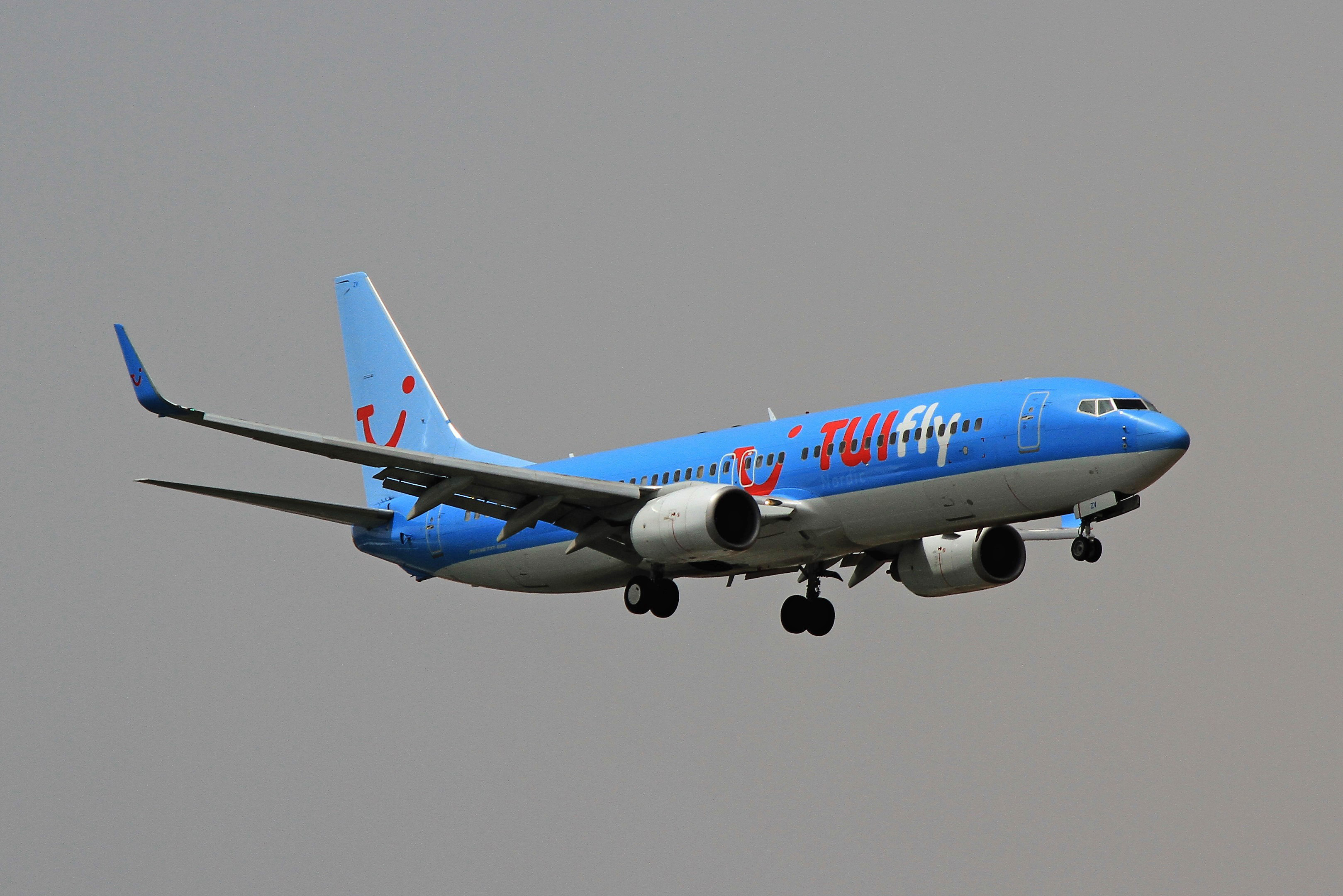 SE-DZV Boeing 737-804 TUI Fly Nordic Lanzarote 31-03-2017